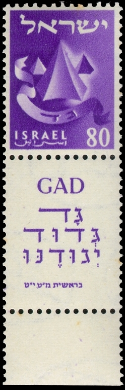 Tribes stamp - 80 mil - Gad. Second definitive series. Inscription on tab: "Gad, a troop shall overcome him..." Genesis IL, 19.